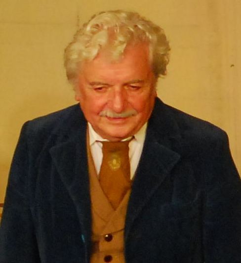 Ladislav Smoljak, member of Jara Cimrman Theatre. Picture taken during play "Investigation of lost class register". Heavily cropped.